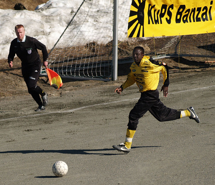 Nigerian winger Edward Anyamkyegh playing for KuPS against PK-37 of Iisalmi in the Finnish Cup. Location: Iisalmi, Finland. Currently Anyamkyegh plays for Sepsi-78 in Seinäjoki, Finland. This work includes material that may be protected as a trademark in some jurisdictions. If you want to use it, you have to ensure that you have the legal right to do so and that you do not infringe any trademark rights. See our general disclaimer.This tag does not indicate the copyright status of the attached work. A normal copyright tag is still required. See Commons:Licensing.